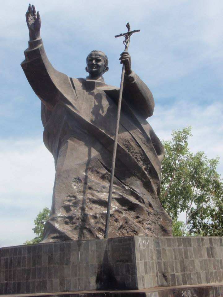 Pope John Paul II monument in Tasitolu